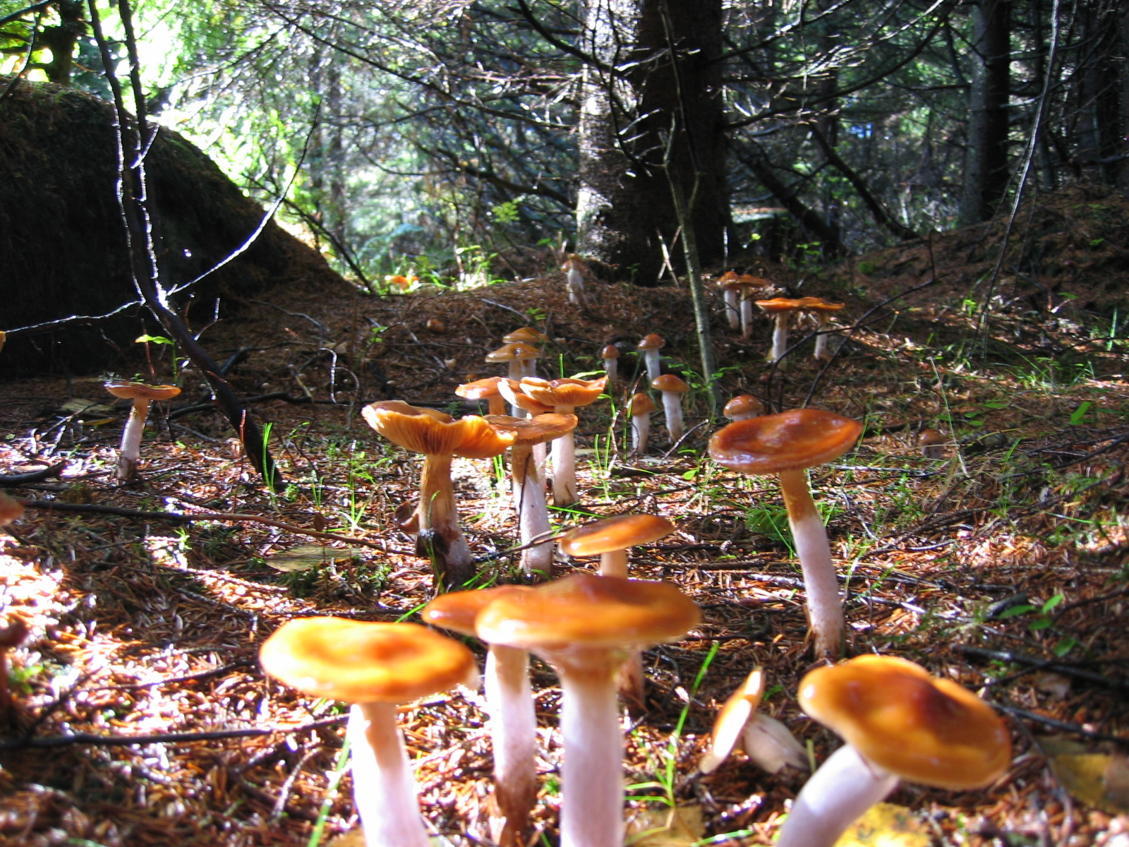 Mushroom Forest